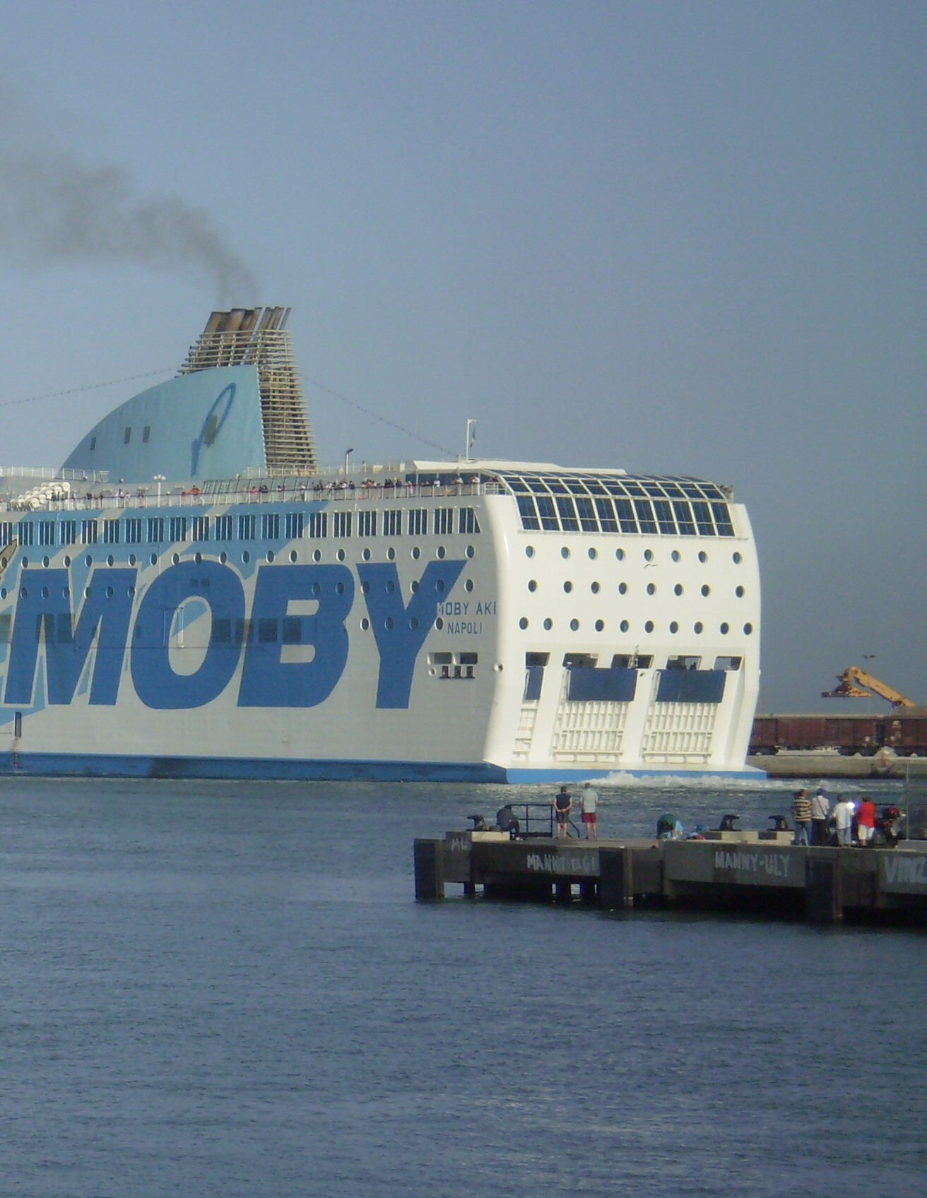 Ferry "Moby Aki" of Moby Lines, Port of Livorno